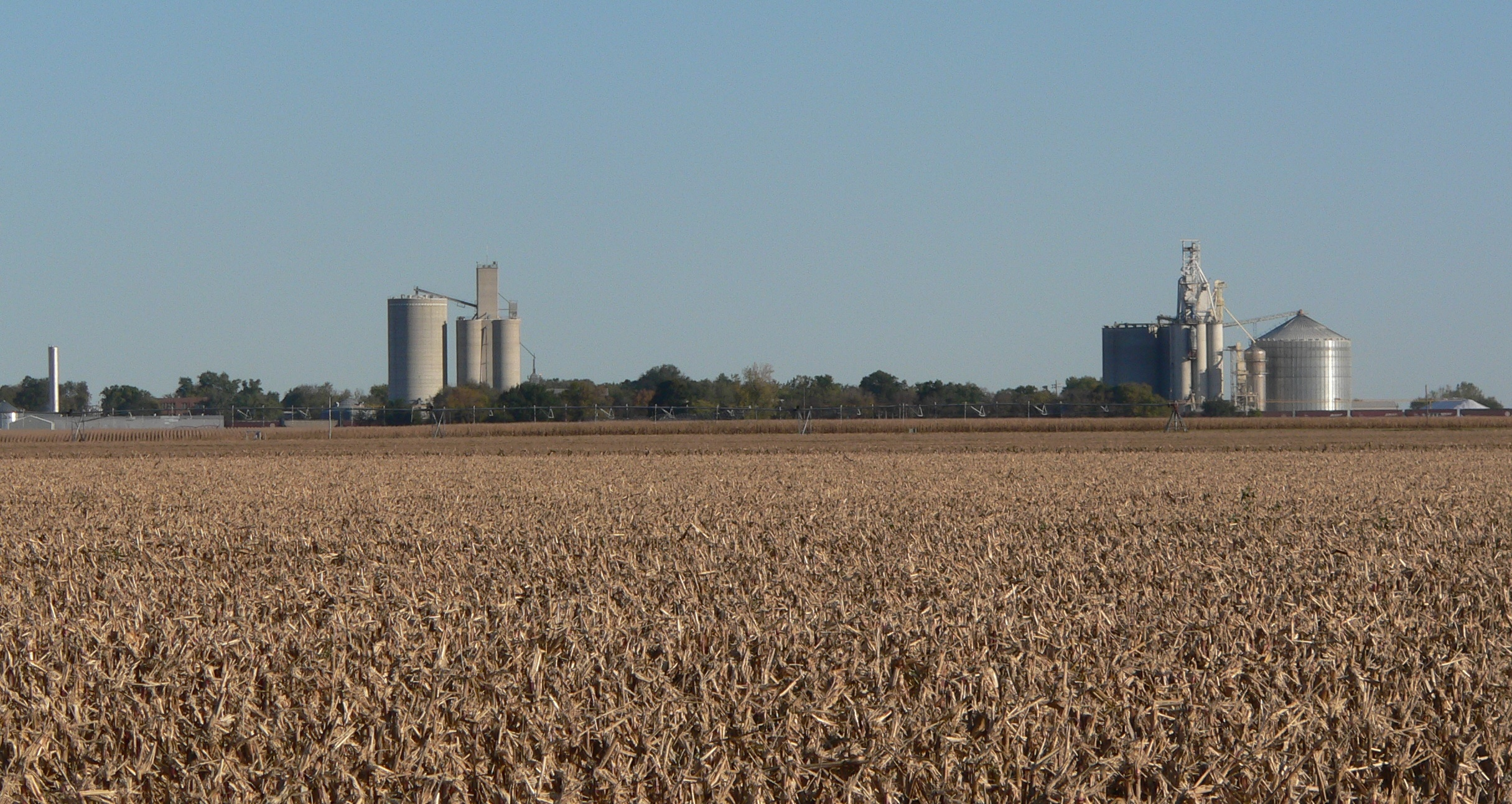 Bradshaw, Nebraska.; seen from the south